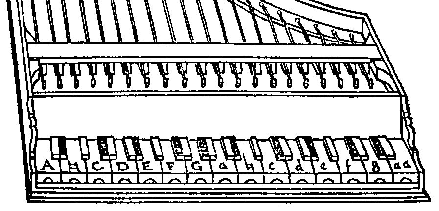 Harpsichord keyboard with 19 keys in one octave (detail). An illustration from Le institutione harmoniche, (1573) by Gioseffo Zarlino. (First edition: "Istitutioni Armonica, Venice, 1558).